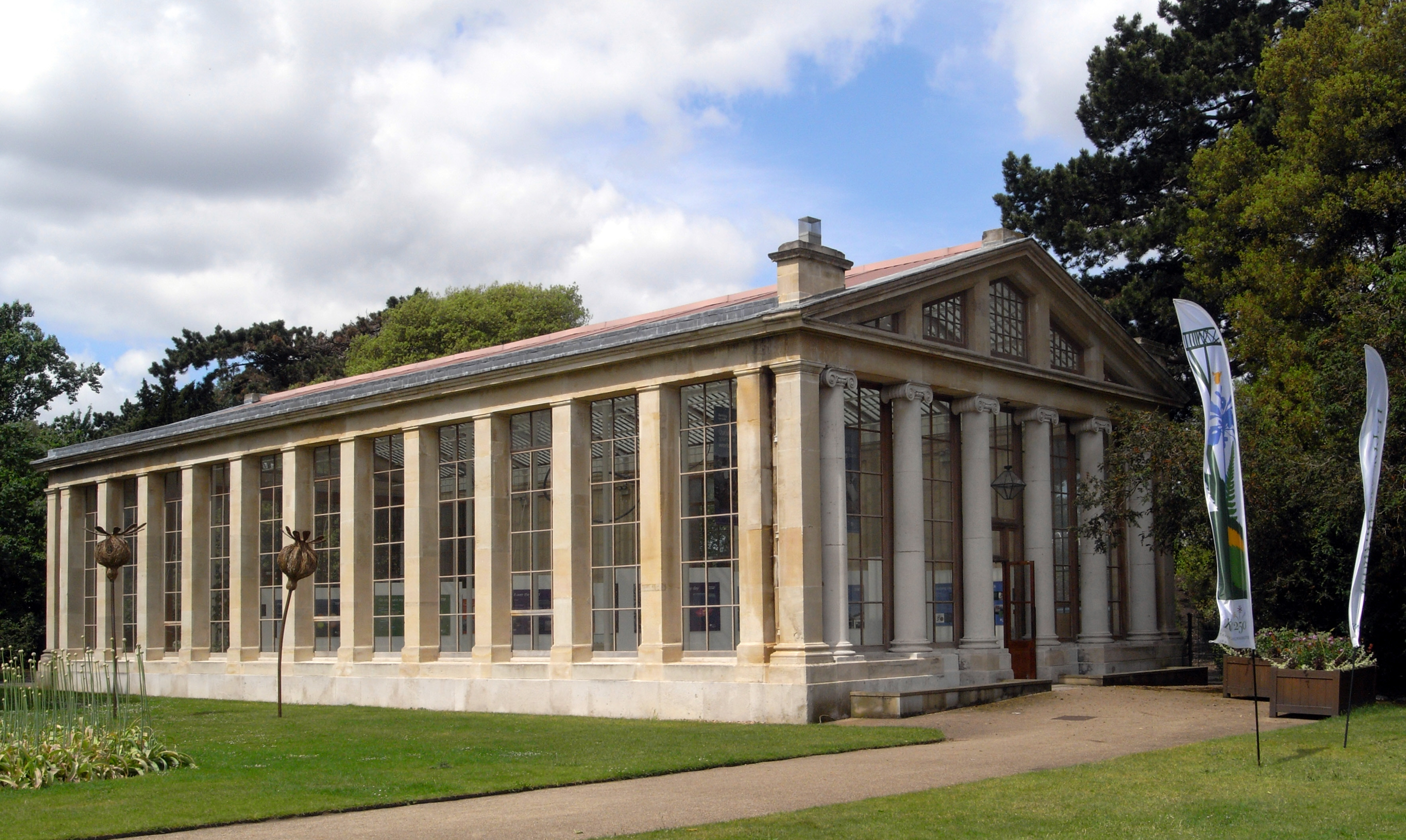 The Nash Conservatory, Kew Gardens, London.